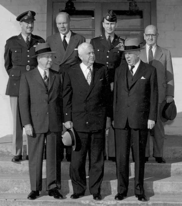 In February 1956 Redstone Arsenal was the scene of a meeting of top U. S. defense officials, who came to inspect the new Army Ballistic Missile Agency. Shown in front row (left to right) are Secretary of Navy Dan Thomas, Secretary of Defense Charles E. Wilson, and Secretary of Army Wilber Brucker. In back row are MG J. B. Medaris, ABMA Commander; James H. Smith, Assistant Secretary of Navy for Air; LTG James Gavin and W. E. Martin, who are in charge of research and development operations for the Army.